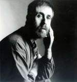 Raoef Mamedov